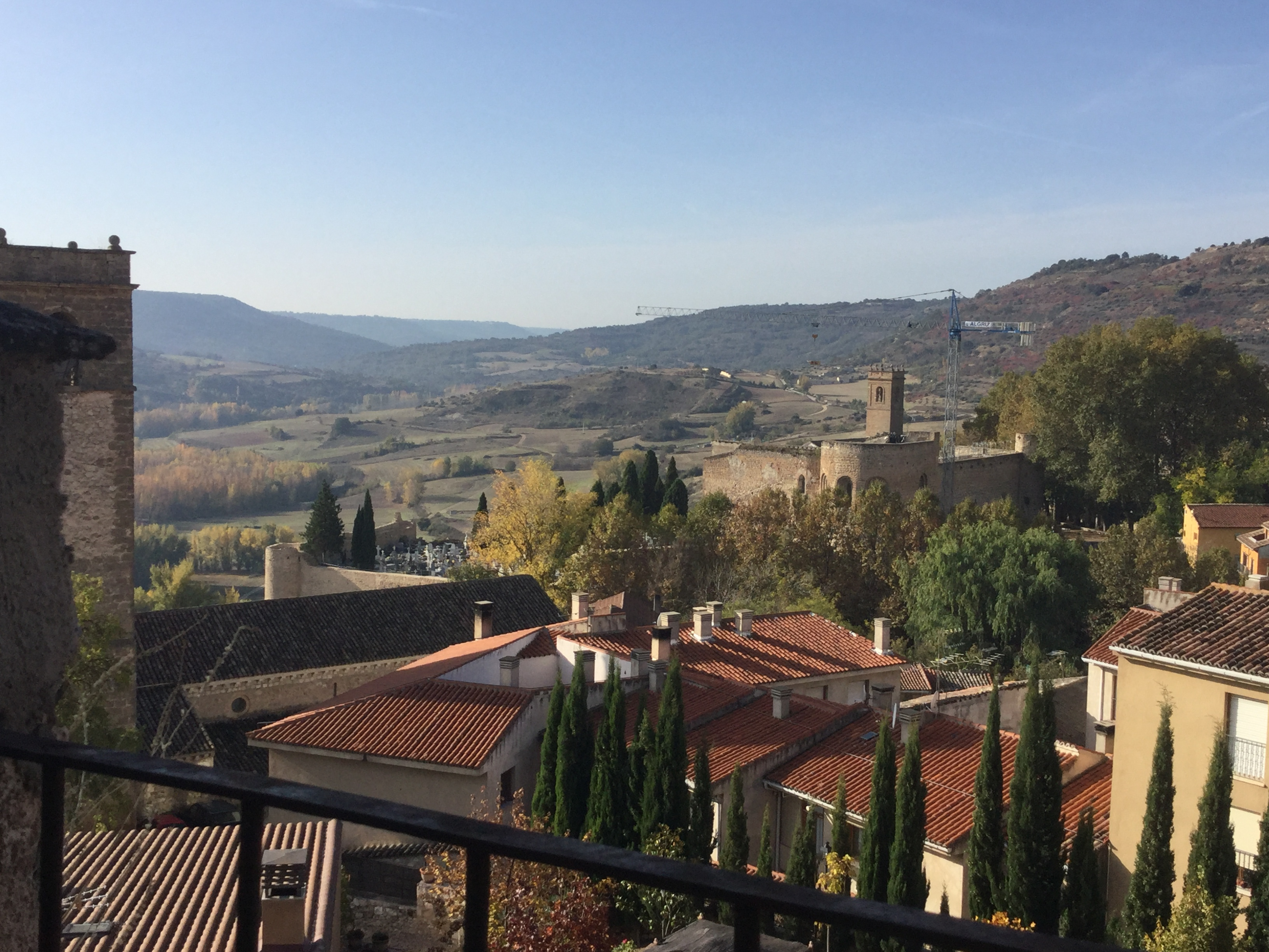 Vue de Brihuega des les jardins de la fabrique